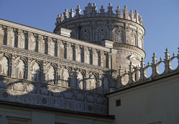 Krasiczyn Castle, Poland